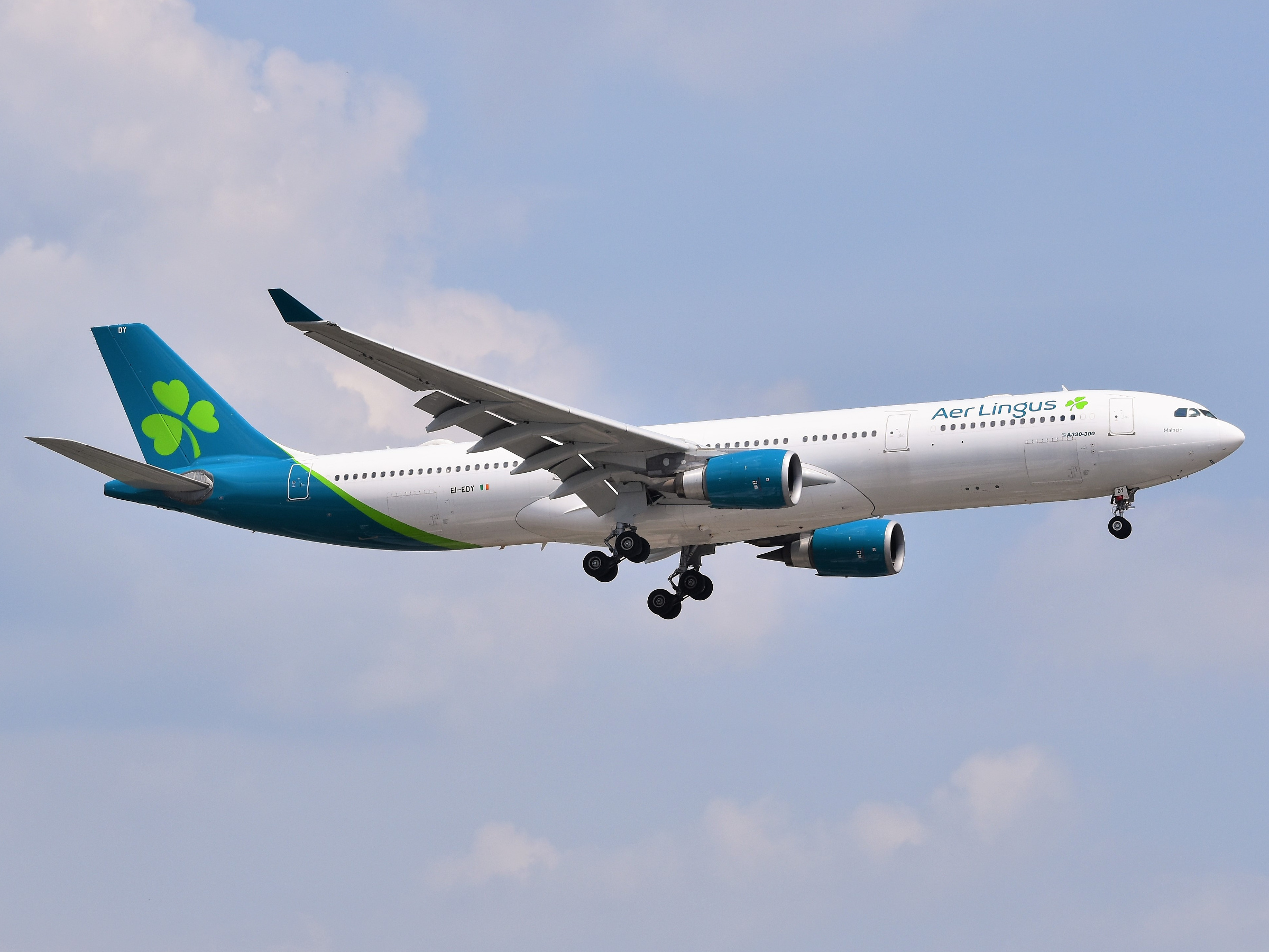 An Aer Lingus Airbus A330-300 in the new livery for the airline is on final approach to Newark Liberty International Airport as Flight EI101.